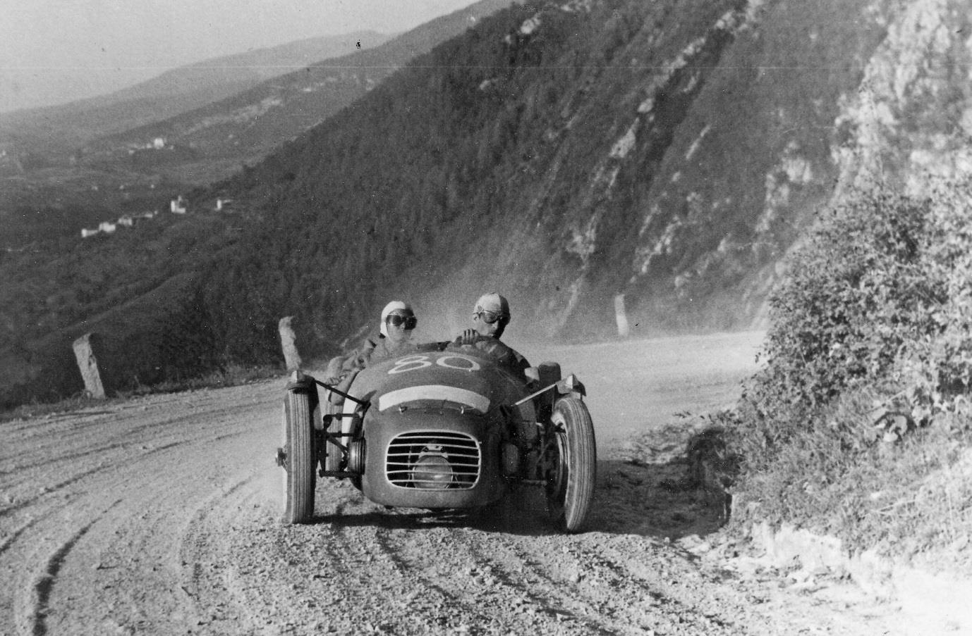 Entry #80 in the III Stella Alpine in on August 4, 1949. This was a Urania 750 Sport by Taraschi Meccanica. It had a BMW 750ccm motorcycle engine. Driven by Maria Teresa de Filippis (left, vehind wheel) and Giuseppe Ruggiero (right, passenger an co-driver). They ended in 6th place.[1]